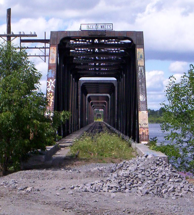 Prince of Wales Bridge, Ottawa, Ontario, Canada. July, 2005. Personal photo by user:Radagast.